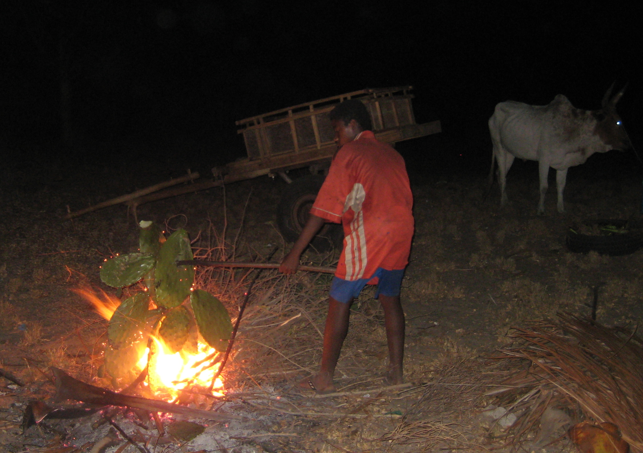 Zebu herder burning thorns off raketa cactus